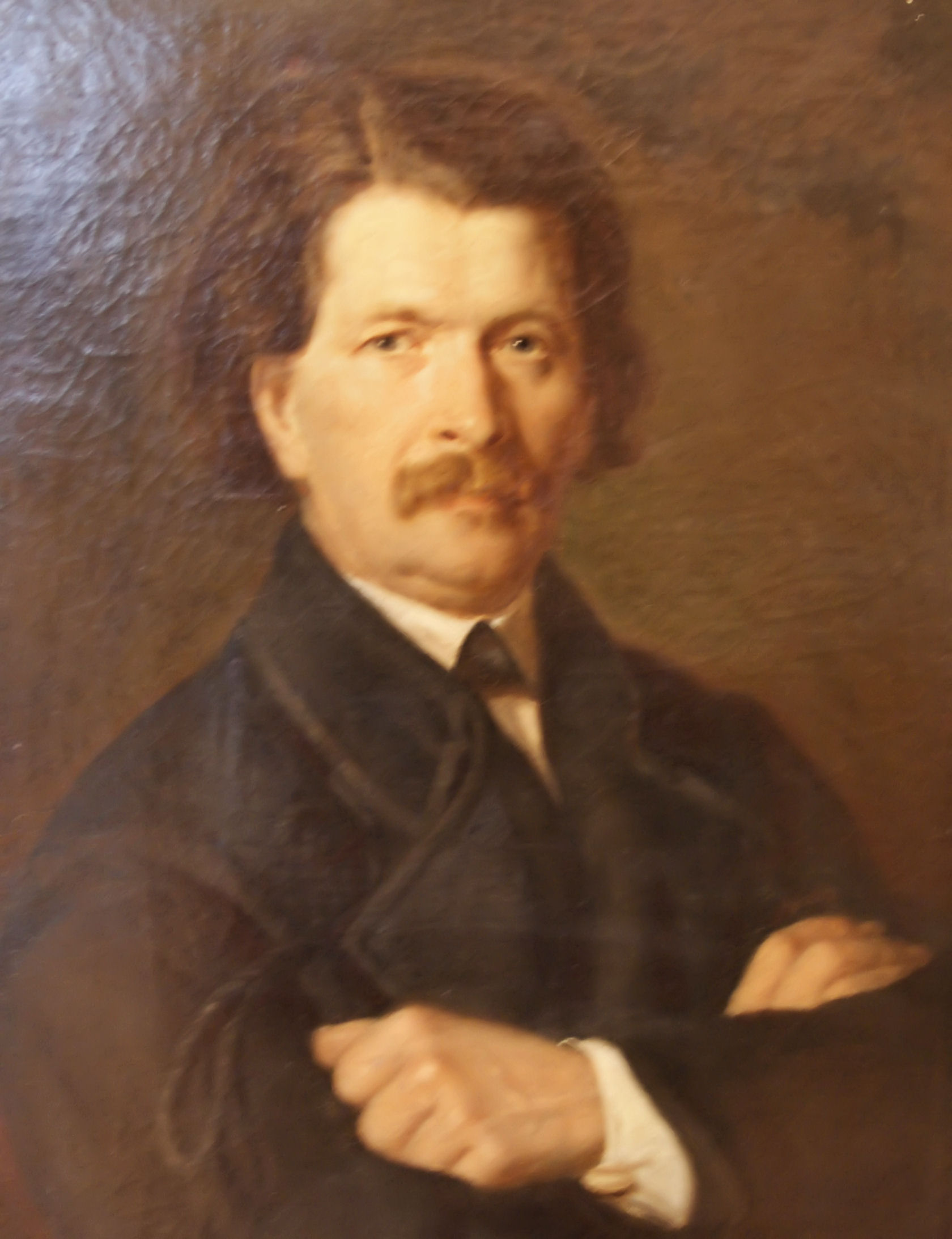 Władysław Niegolewski, History of Poznań Museum, Poznań, Poland